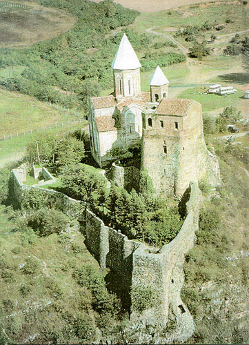 Gremi.